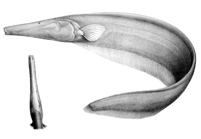 Orthosternarchus tamandua, from plate 42 of Boulenger (1898).